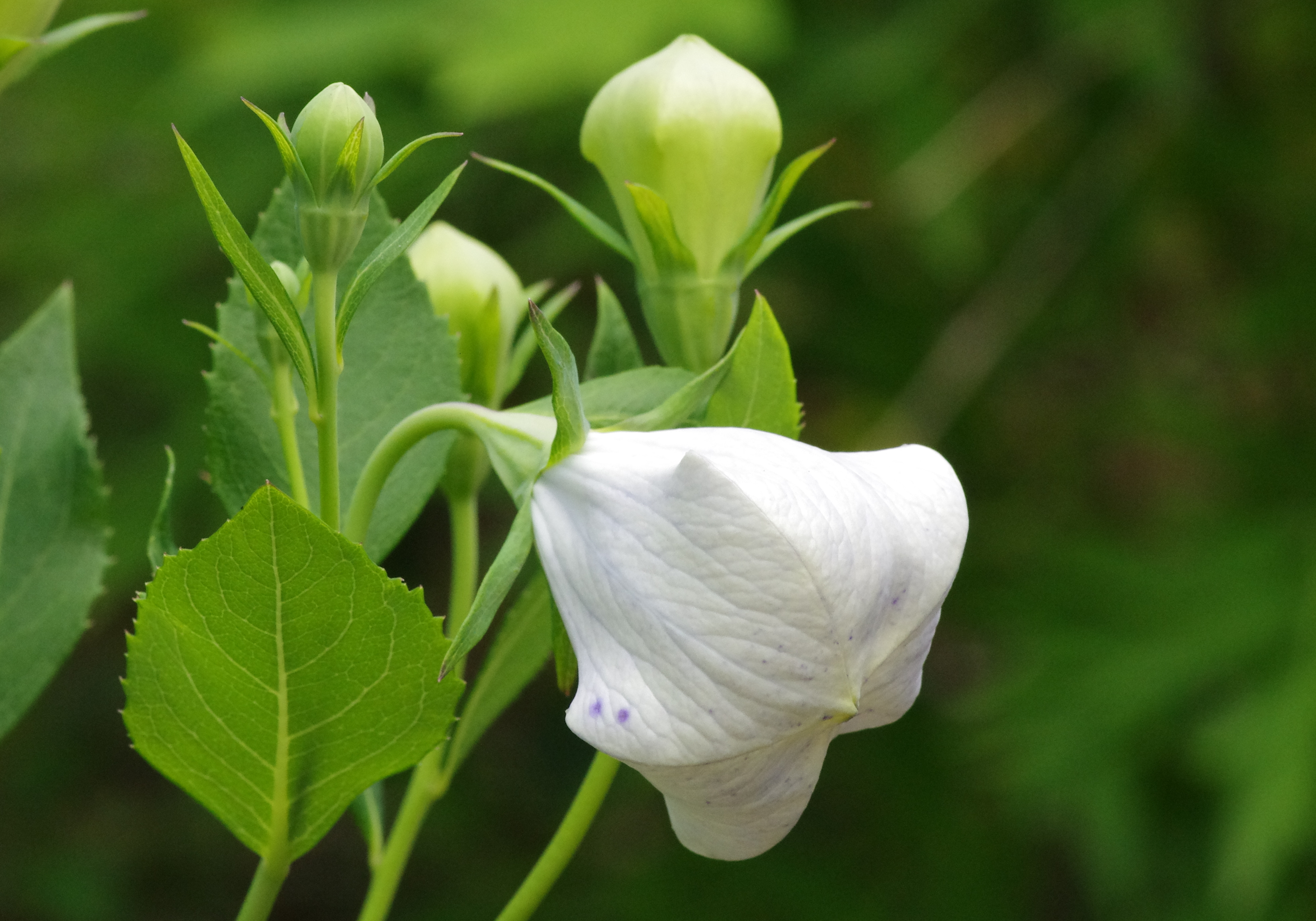 Platycodon grandiflorus at the ÖBG Bayreuth